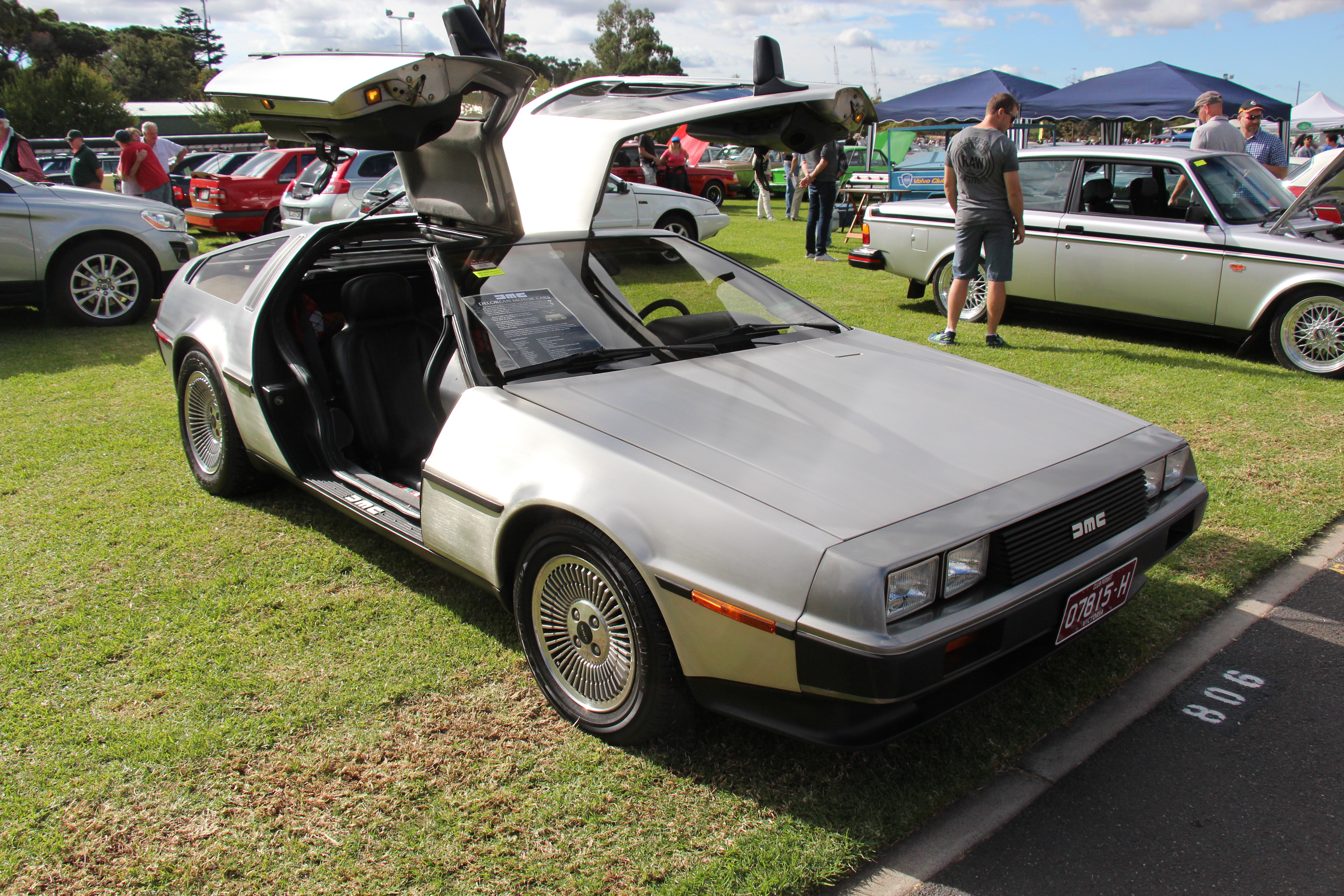 Built in 1981 and 1982, 9000 were made, built in Northern Ireland for the American market and it featured gull wing doors, fibreglass underbody and brushed stainless steel body panels. This car was made famous in the Movie Trilogy 'Back to the Future'. staring Micheal J Fox and Christopher Lloyd, the modified car was used as a time machine travelling to different periods of time (1985 to 1955 to 2015 to 1855) in Hill Valley, California, their adventures and difficultys in getting back to their original year. Engine; 2849cc V6